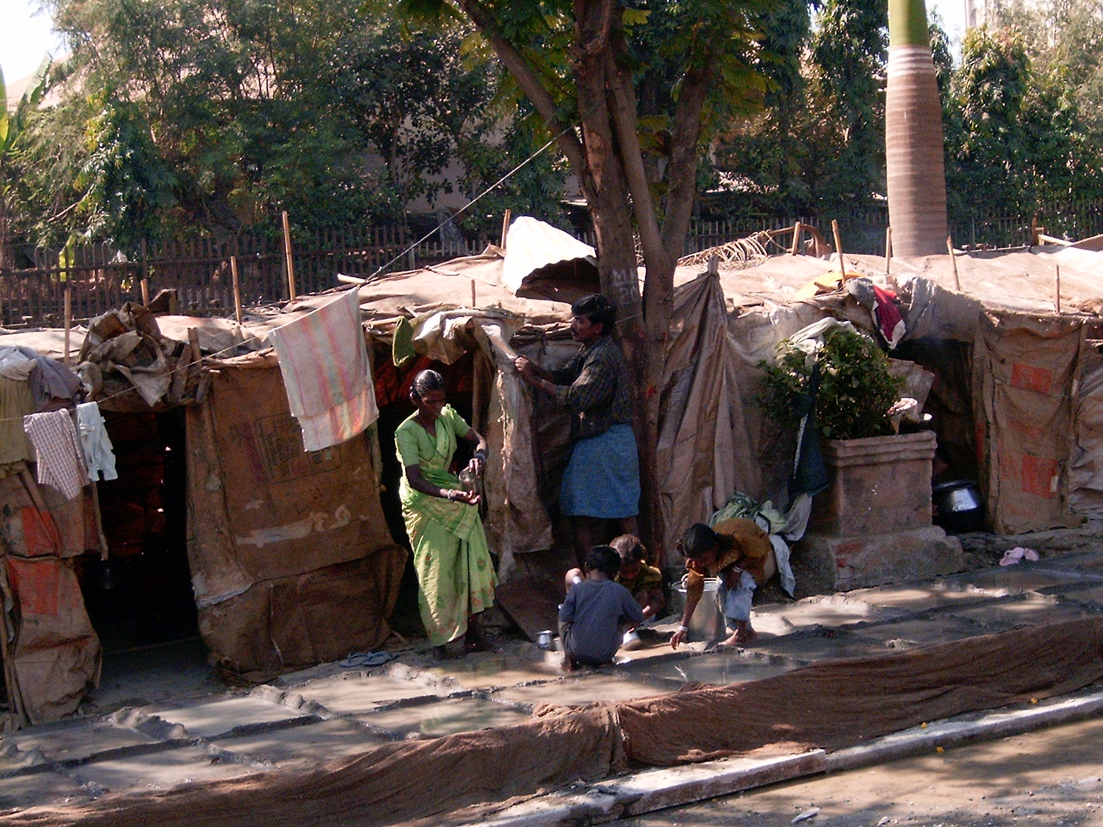 People living on the street in Bombay.